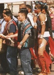 San Carlos Apache-indianere